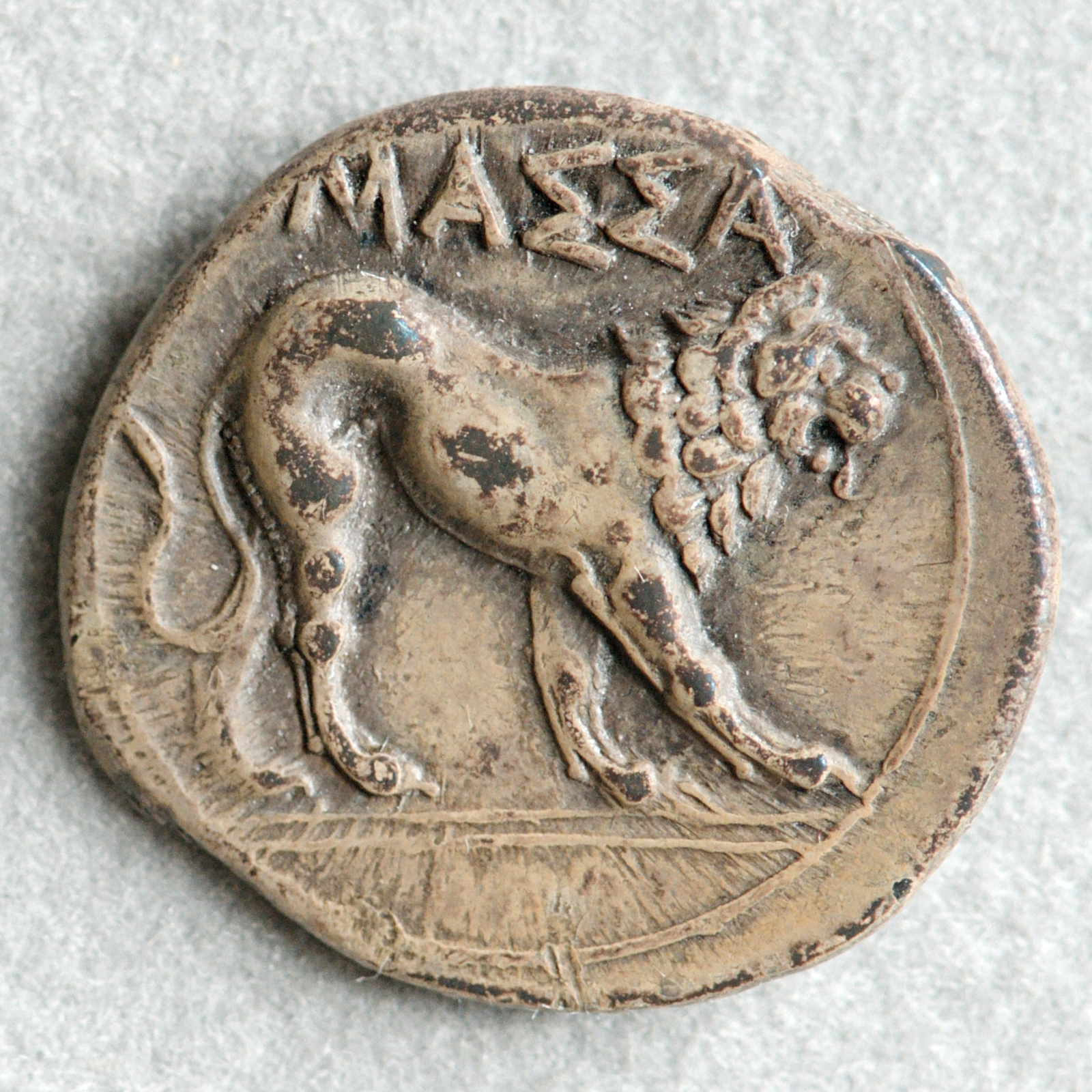 Silver drachm (so-called heavy drachm) of Massilia, ca. 390–220 BC, reverse: lion walking right.